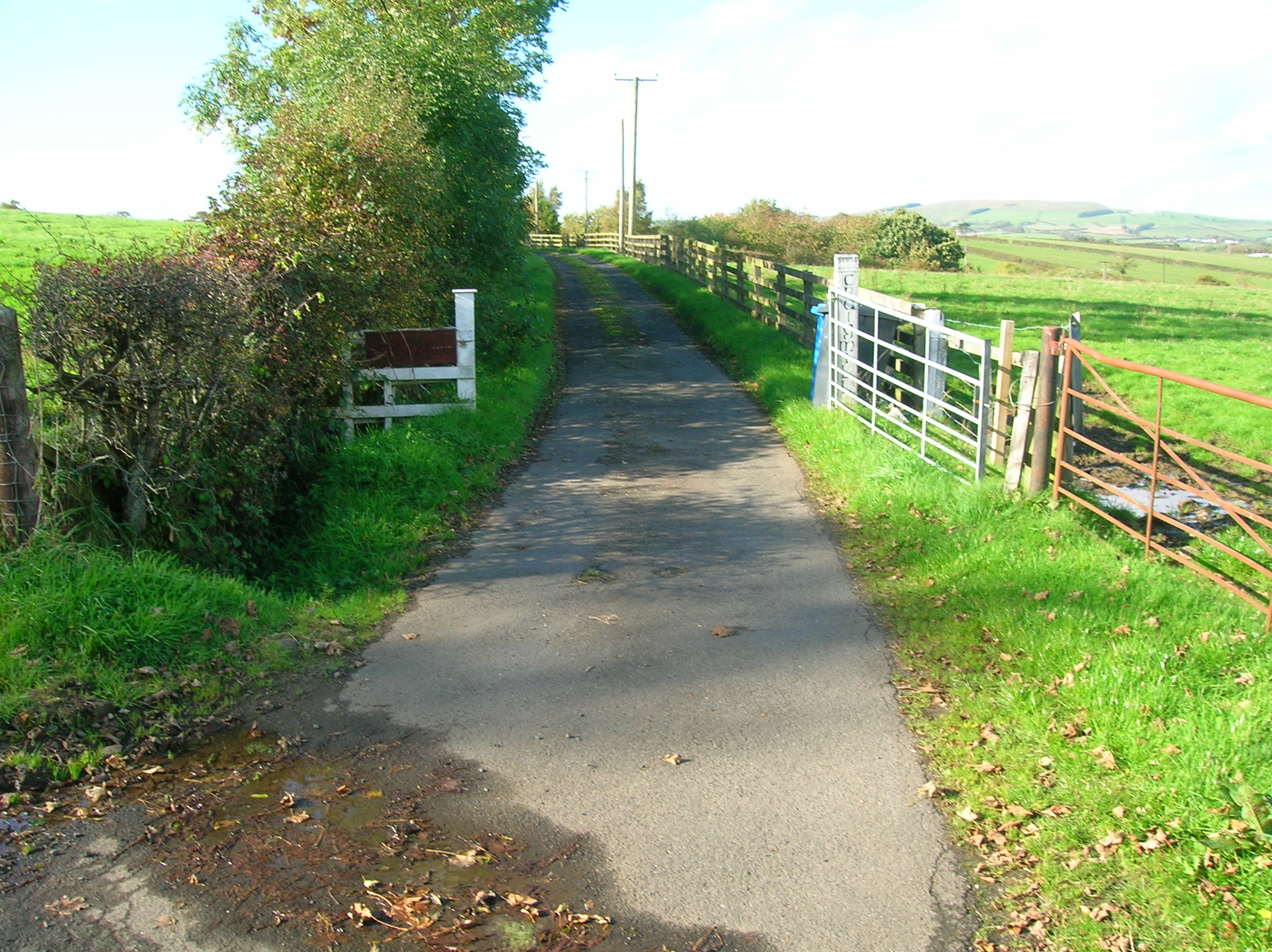 The old Monk's road. Entrance to Craigmill, Dalry, Ayrshire, Scotland.